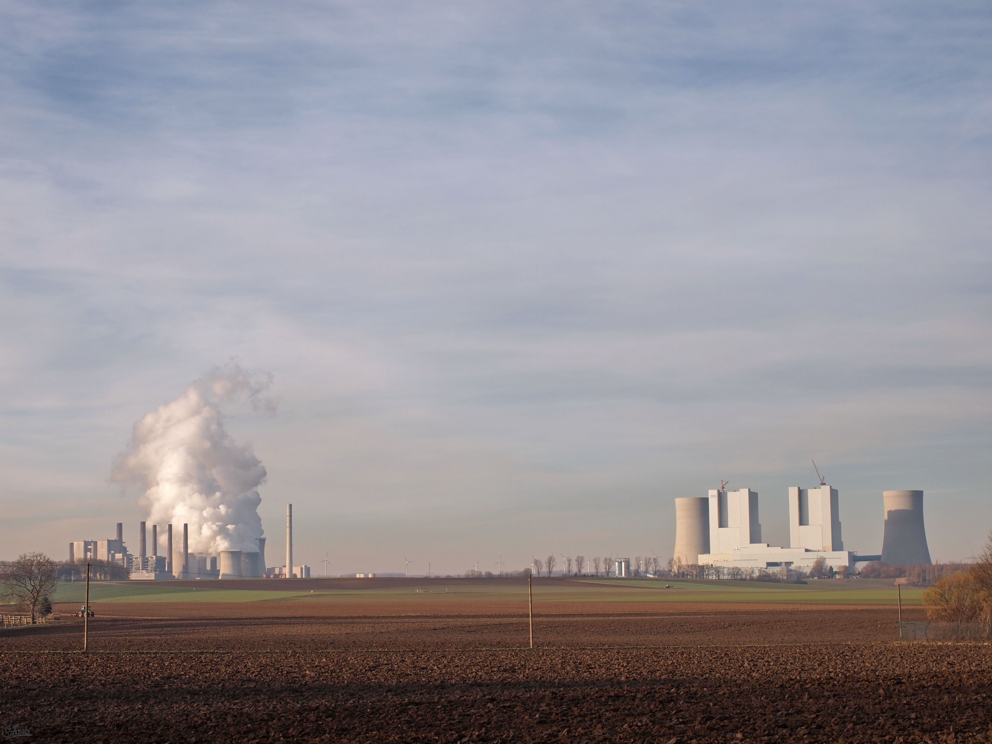 Power plant Neurath including new construction BoA2&3